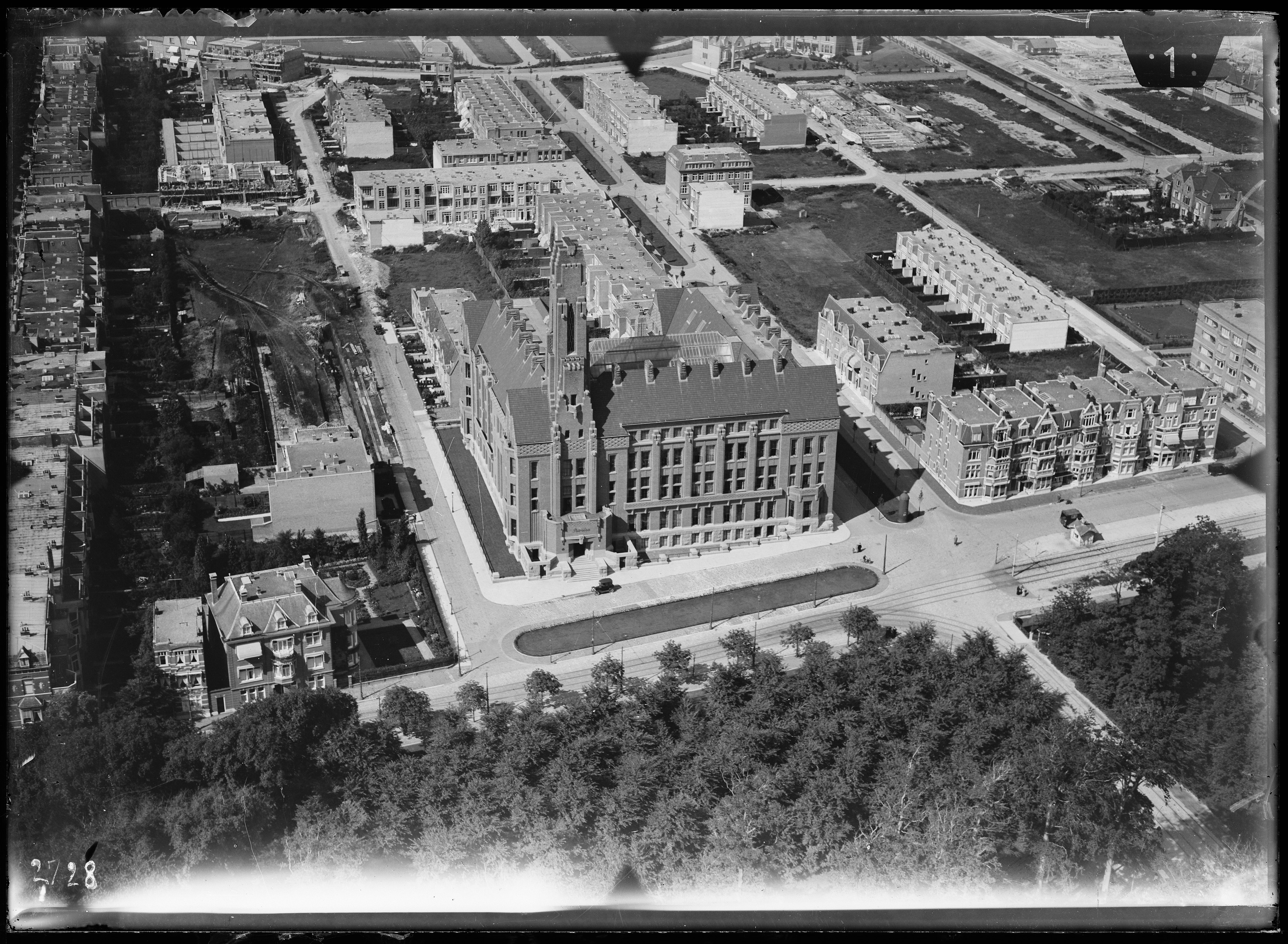 Aerial photograph of The Hague, The Netherlands. De Rode Olifant (The Hague), Zuid-Hollandlaan 7